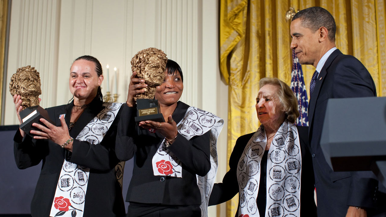 Jenni Williams, left, and Magodonga Mahlangu, center left, co-founders of Women of Zimbabwe Arise (WOZA), receive the Robert F. Kennedy Human Rights Award from Ethel Kennedy and United States President Barack Obama, right, during a ceremony honoring the two women in the East Room of the White House, in November 23, 2009.